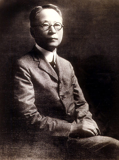 Seo Jai-pil 30 years ages